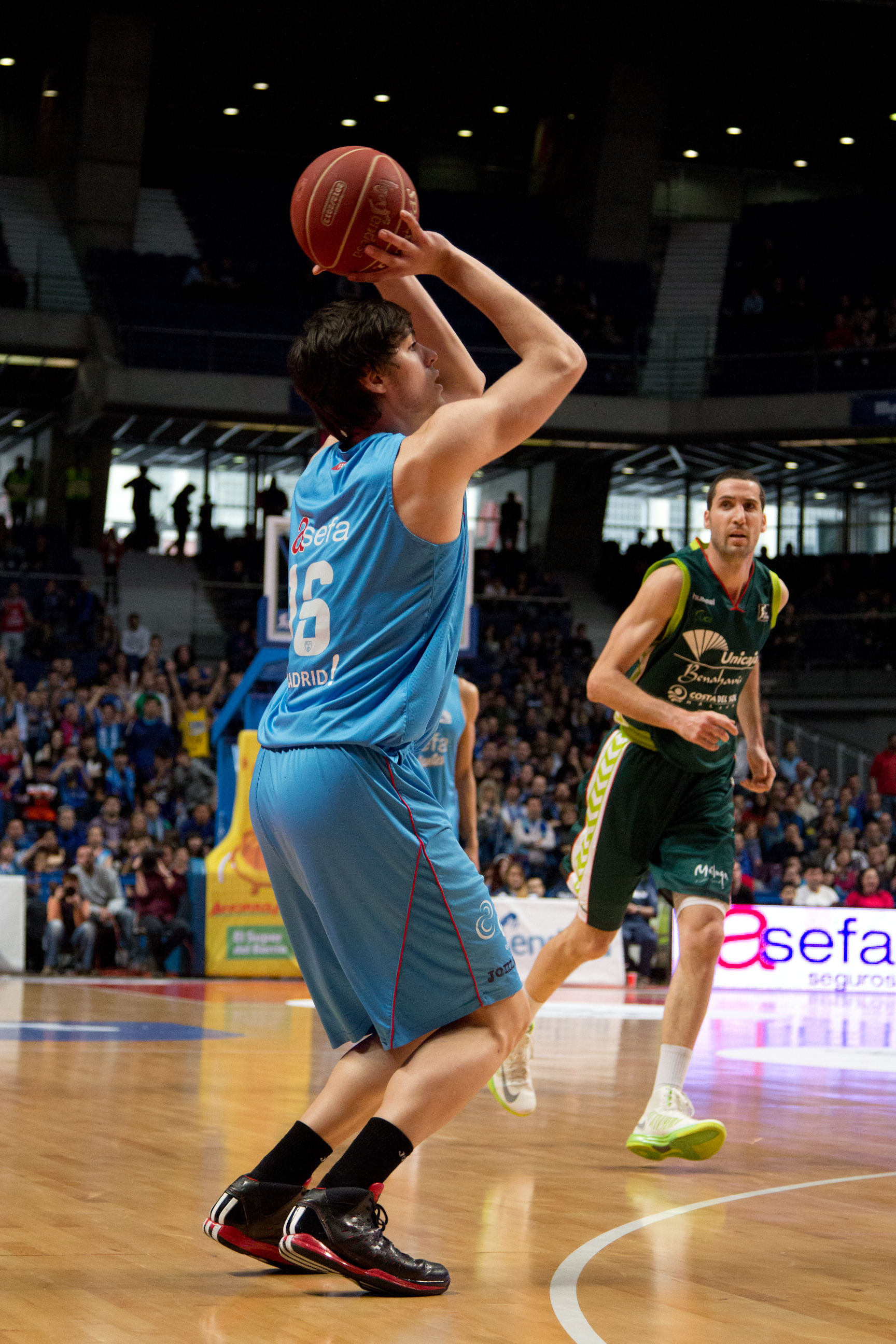 Edgar Vicedo. Game Estudiantes vs Unicaja Málaga.